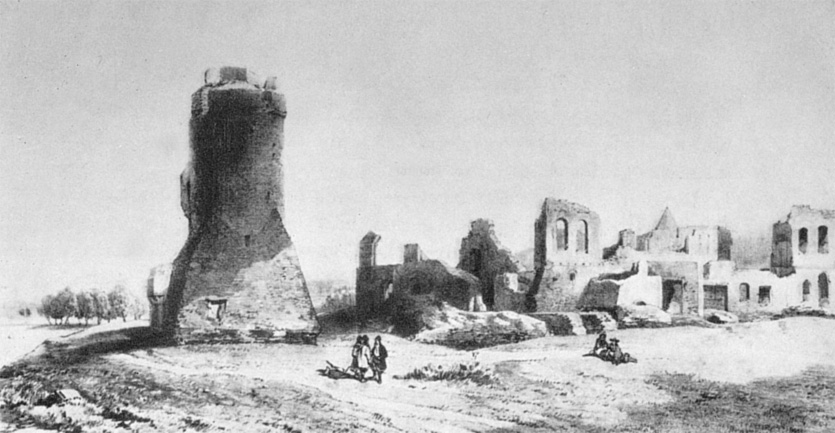 Chindia Tower in first half of he 19th century, as seen in Michel Bouque's 1840 lithography. This is the only image that may indicate the original shape of the tower. Here the building is shorter than it is in the present day, and its base is made out of bricks.